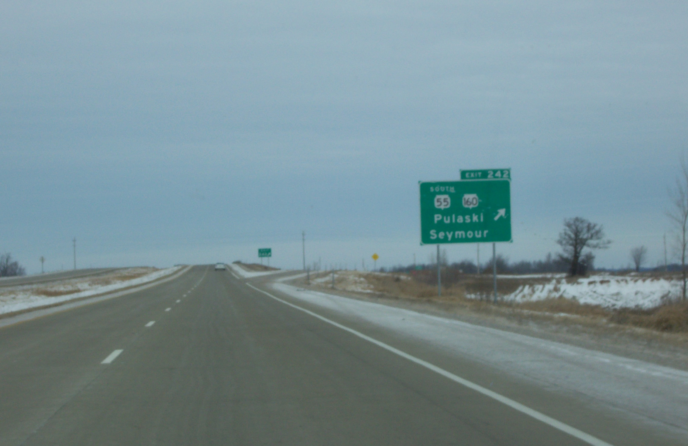 Category:Images of Wisconsin highways (Original text: Looking at west at the west terminus of Wisconsin Highway 160 while travelling northwest on Wisconsin Highway 29 in Shawano County, Wisconsin. Cropped from original.)